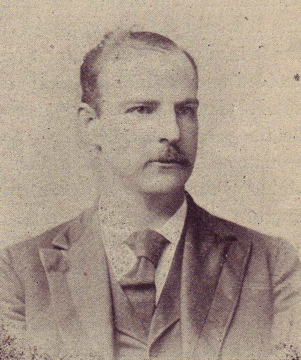 Portrait of 1895 Atlanta mayor, Porter King scanned from 1892 book